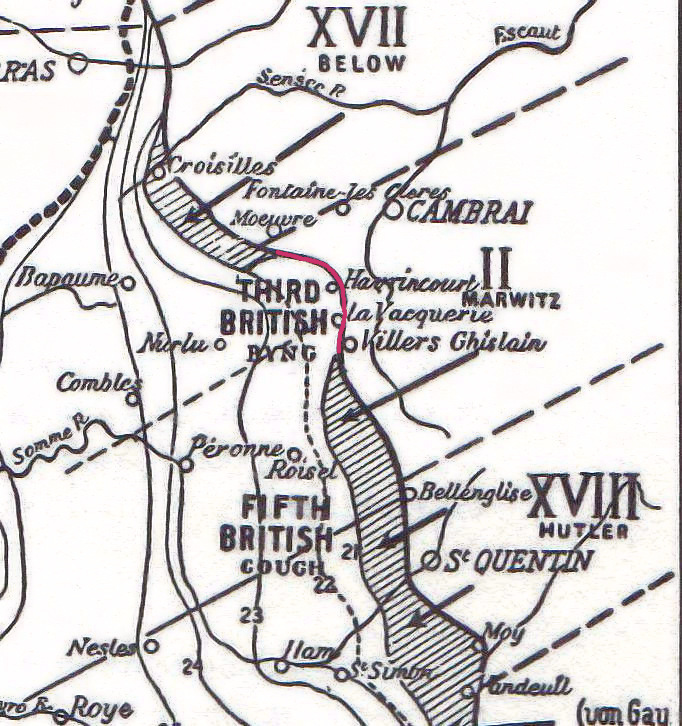 Map of plan for attack on British salient near Cambrai in 1918. Color added to emphasis part of front that was not to be broken through to attempt to encircle British V Corps.